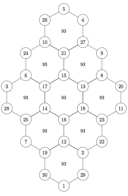 Hexagonal tortoise problem was devised by Korean mathematician Seok-Jeong Choi.